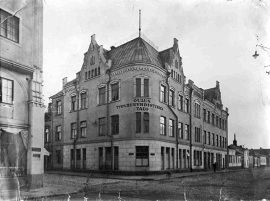 Oulu Workers' Hall in Oulu, Finland.